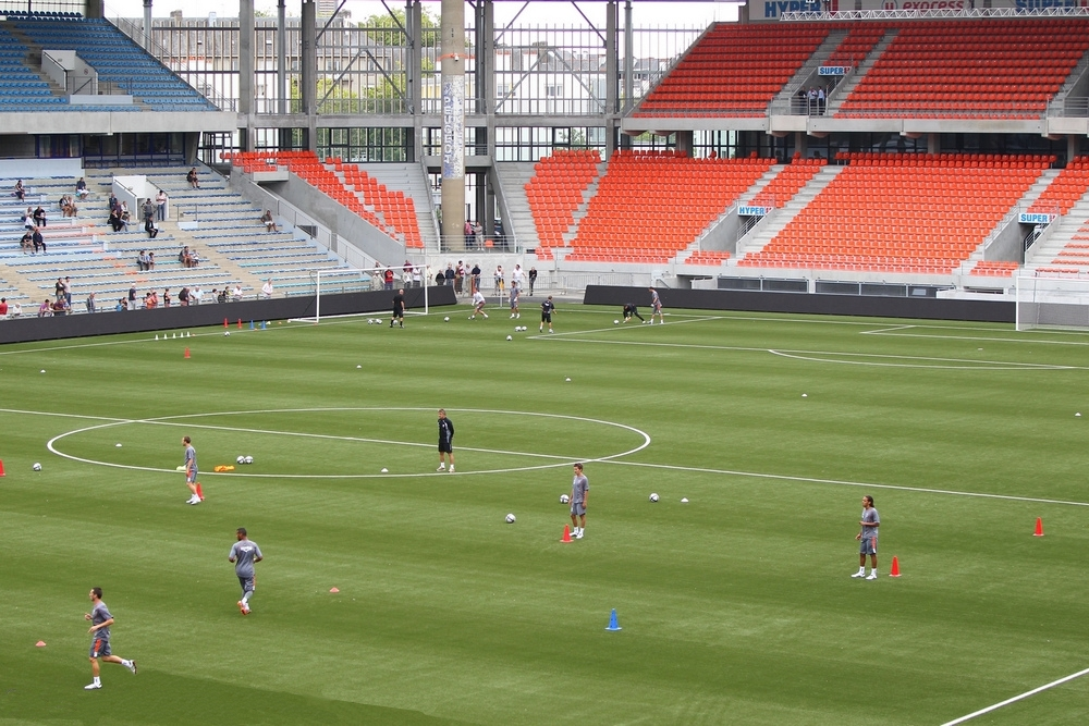 "Stade du Moustoir" located in Lorient, France